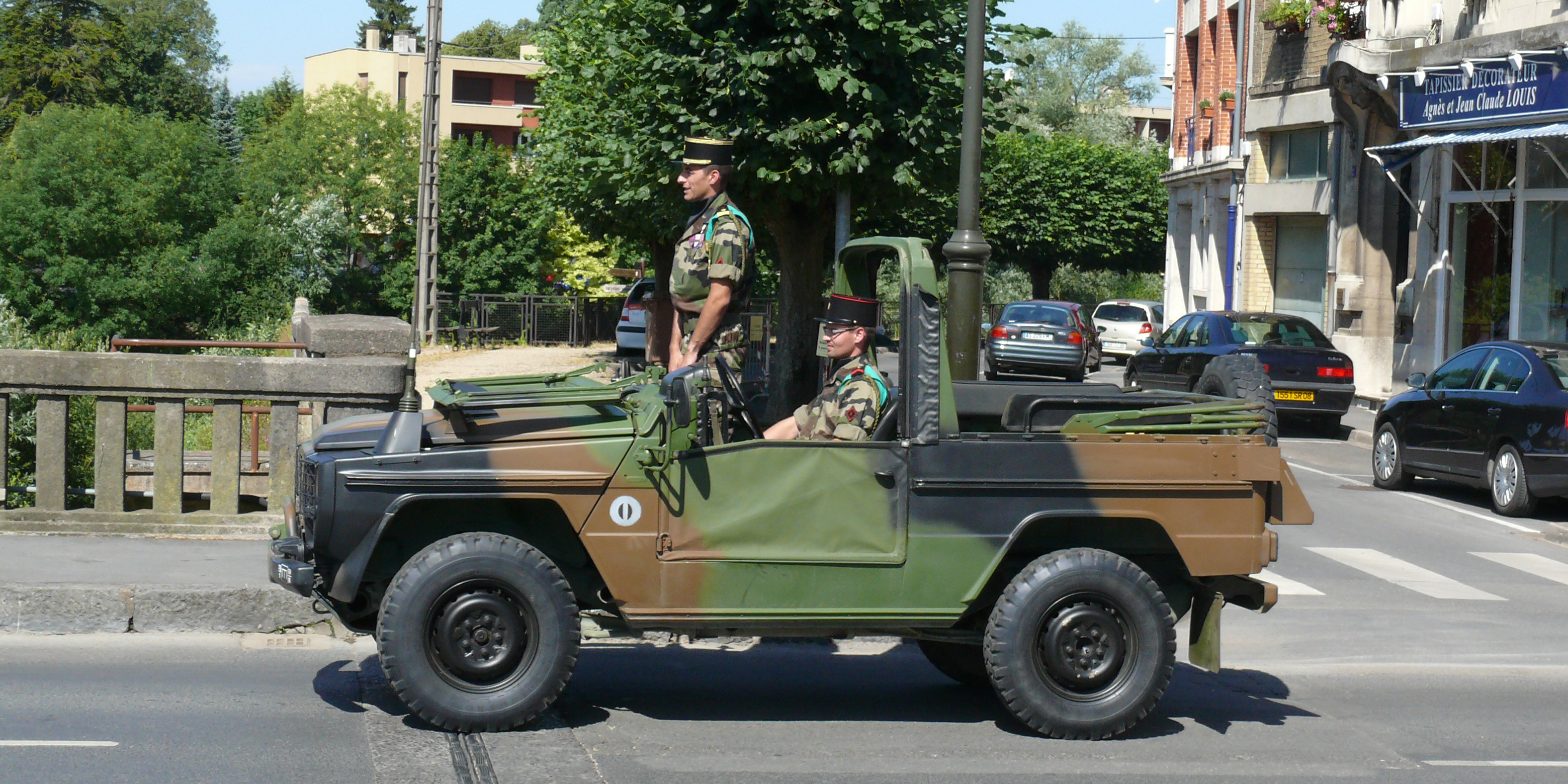 Peugeot P4 of the 3rd regiment engineers, 1st Mechanised Brigade of the French Armée de Terre during the Bastille Day Parade in Charleville Mézières, 2010.